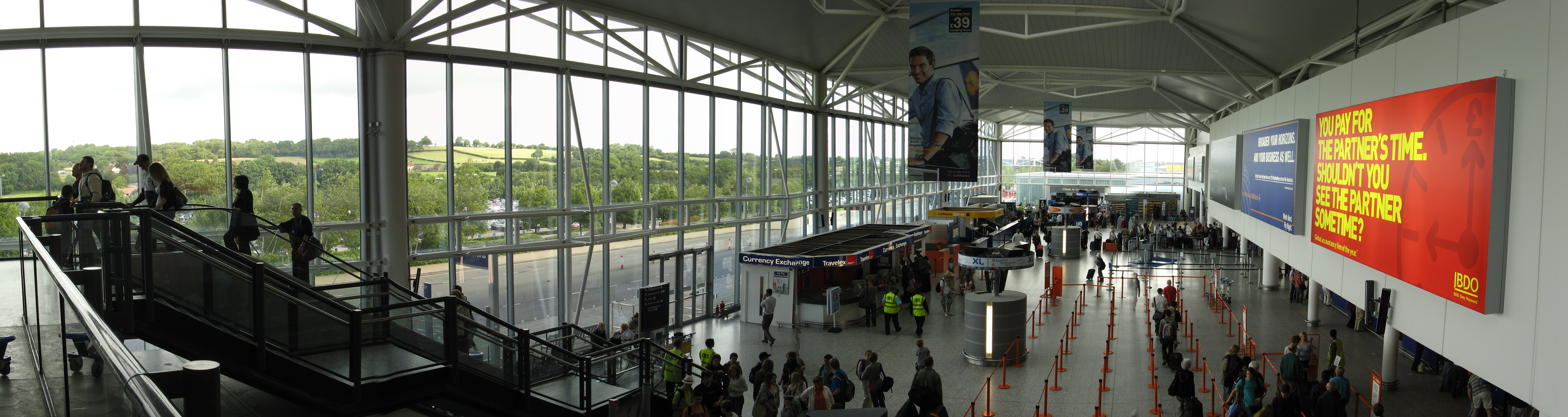 Bristol International Airport, terminal building departure check in area.